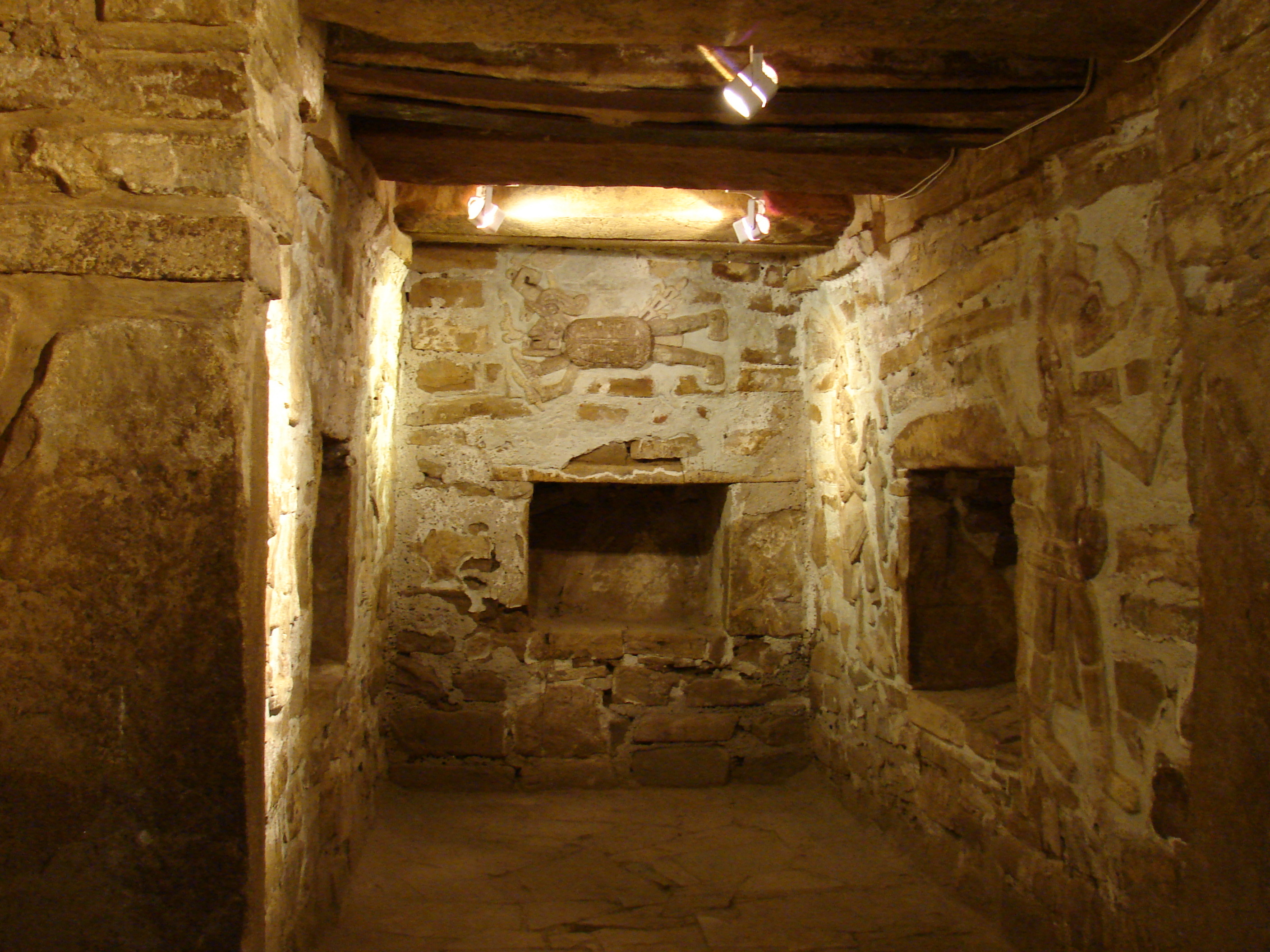 Inside of it falls down number 1 of Archeological site of Zaachila, Oaxaca, Mexico.